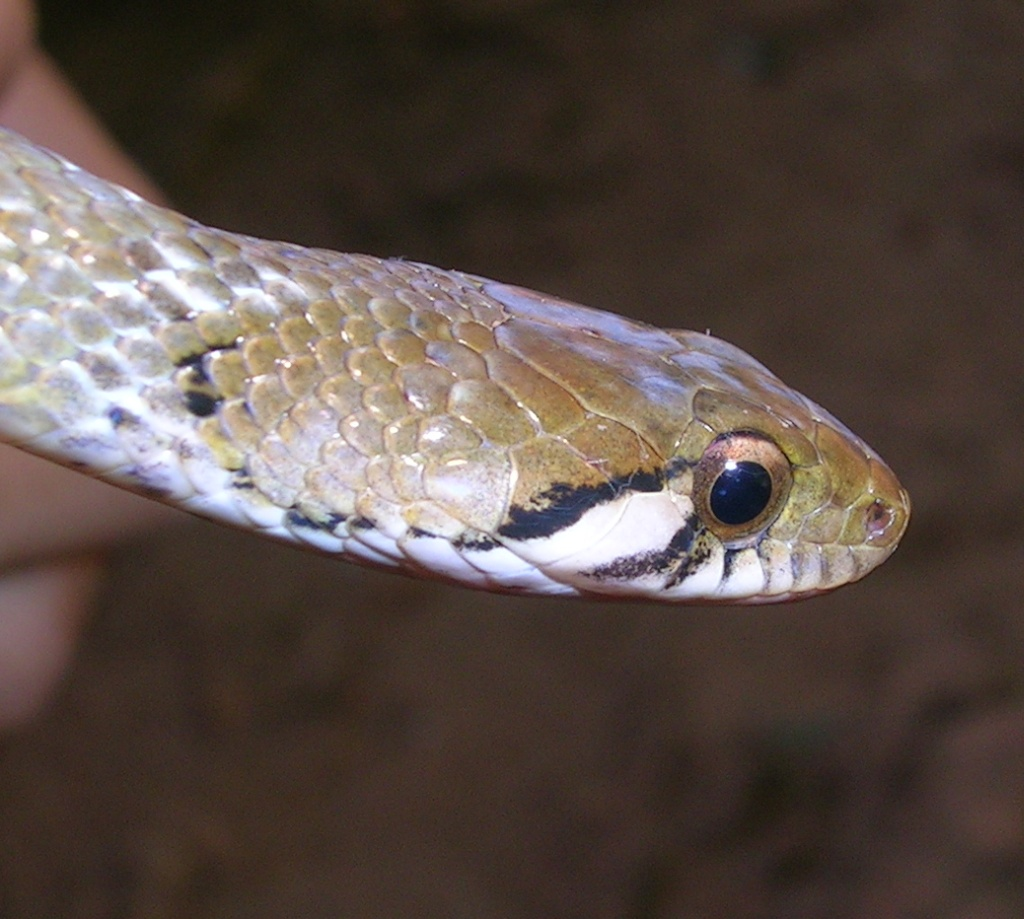 Amphiesma beddomei from Wayanad